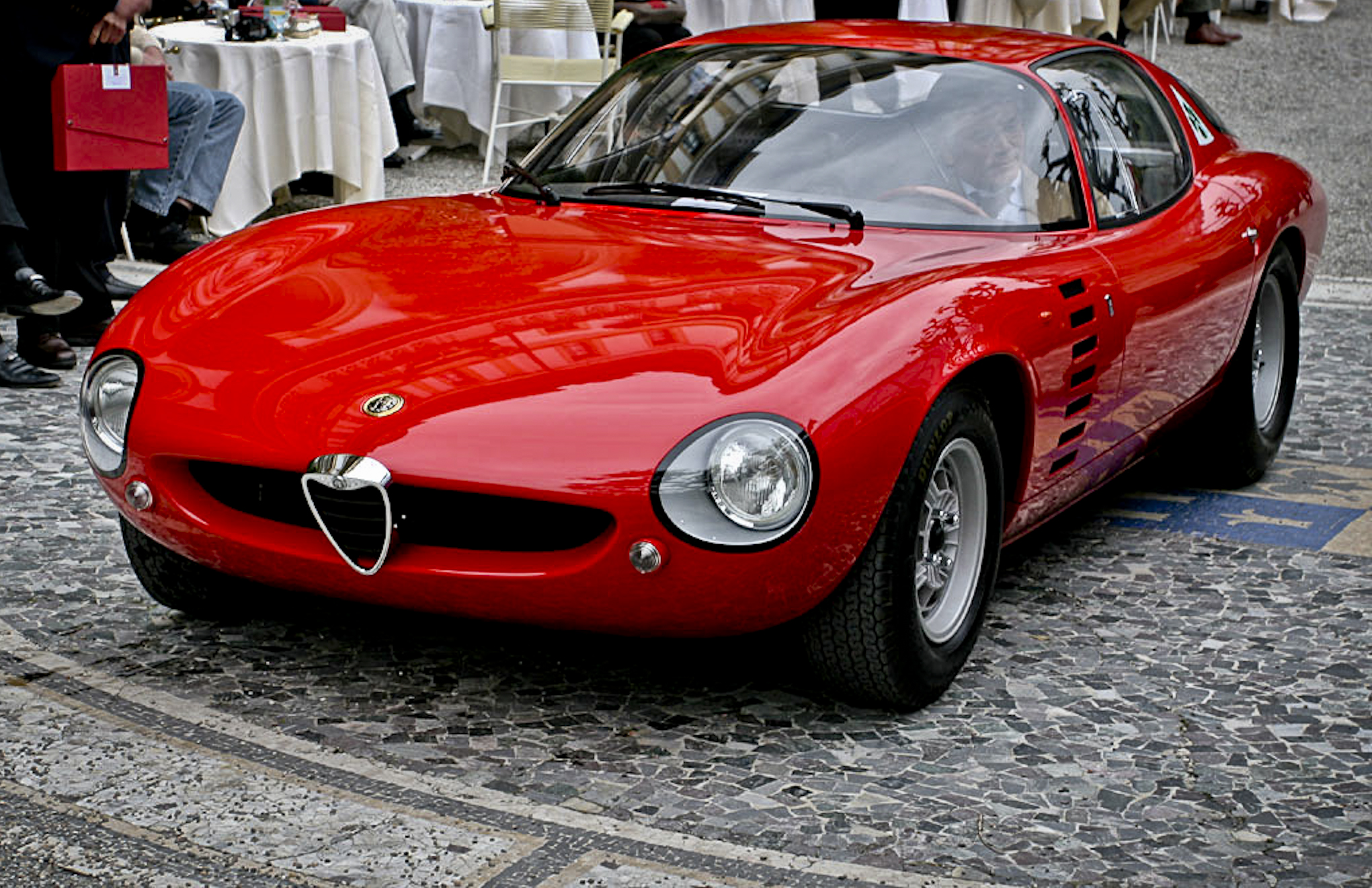 1964 Alfa Romeo Canguro in left-front-3-quarter view